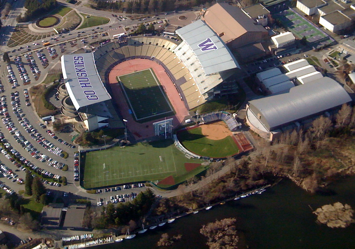 Husky Stadium viewed from an aircraft, approx 1,700' MSL. Union Bay visible below.